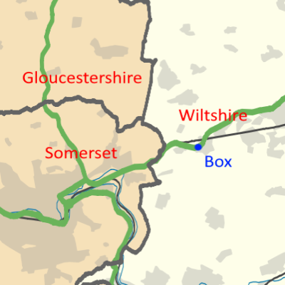 Image showing the position of Box in Wiltshire, United Kingdom, relative to the neighbouring counties. Own work, based on